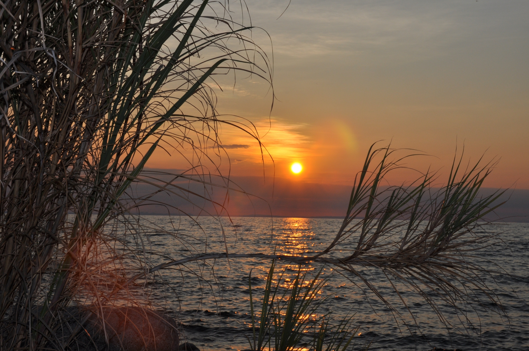 On June 11, 2011, the government of Mozambique officially opened the Lake Niassa Reserve, which encompasses an area of 230 square miles and twenty communities, in addition to a 380 square mile buffer zone on land. The Reserve protects the species and natural habitats of the of the most biodiverse freshwater lake on earth while simultaneously supporting fishermen’s livelihoods and laying a path for broad-based growth in sustainable tourism and related sectors. USAID has worked in partnership with the government of Mozambique, the World Wildlife Fund, and the Coca-Cola Company to protect the species and natural habitats of the of the most biodiverse freshwater lake on earth. Protecting Lake Niassa creates important economic opportunities for local fishing and tourism industries. (Photo: Christian Smith/USAID)